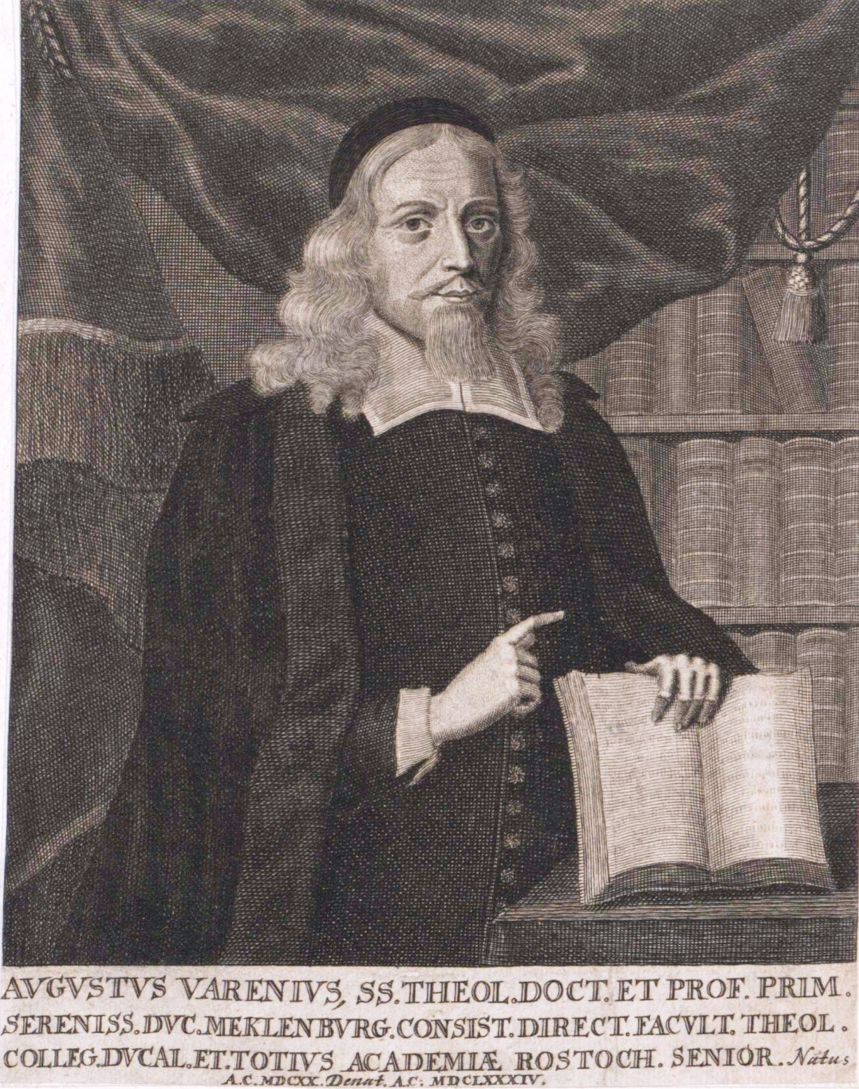 Portrait of August Varenius, copper engraving, original size 165x145 mm